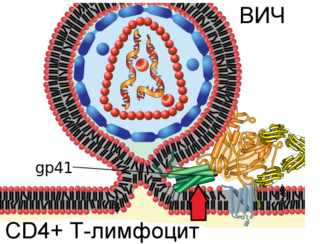 Mechanism of Viral Entry/Membrane Fusion